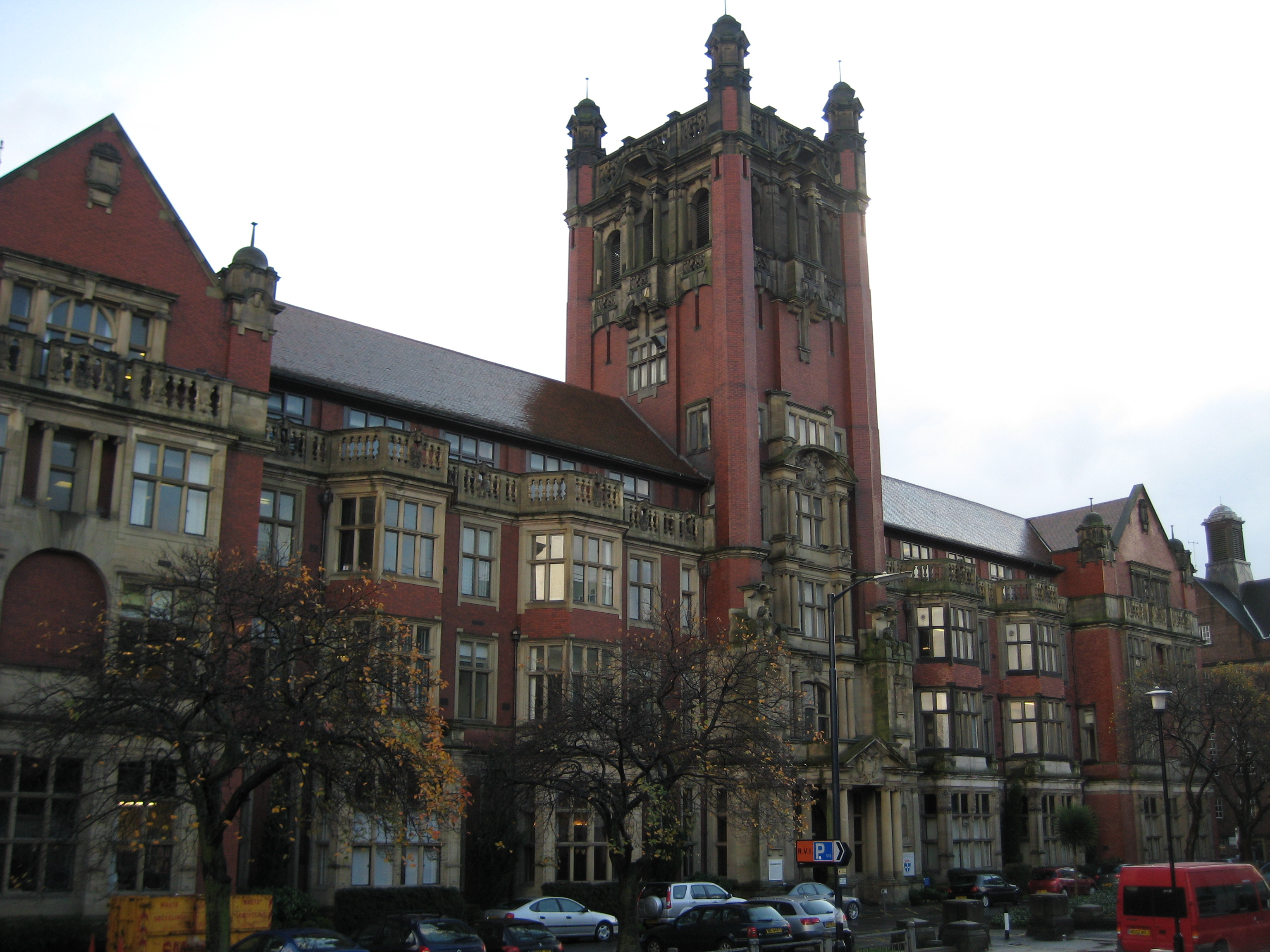 Image source: Xtrememachineuk| (talk|) 22:18, 31 October 2008 (UTC)